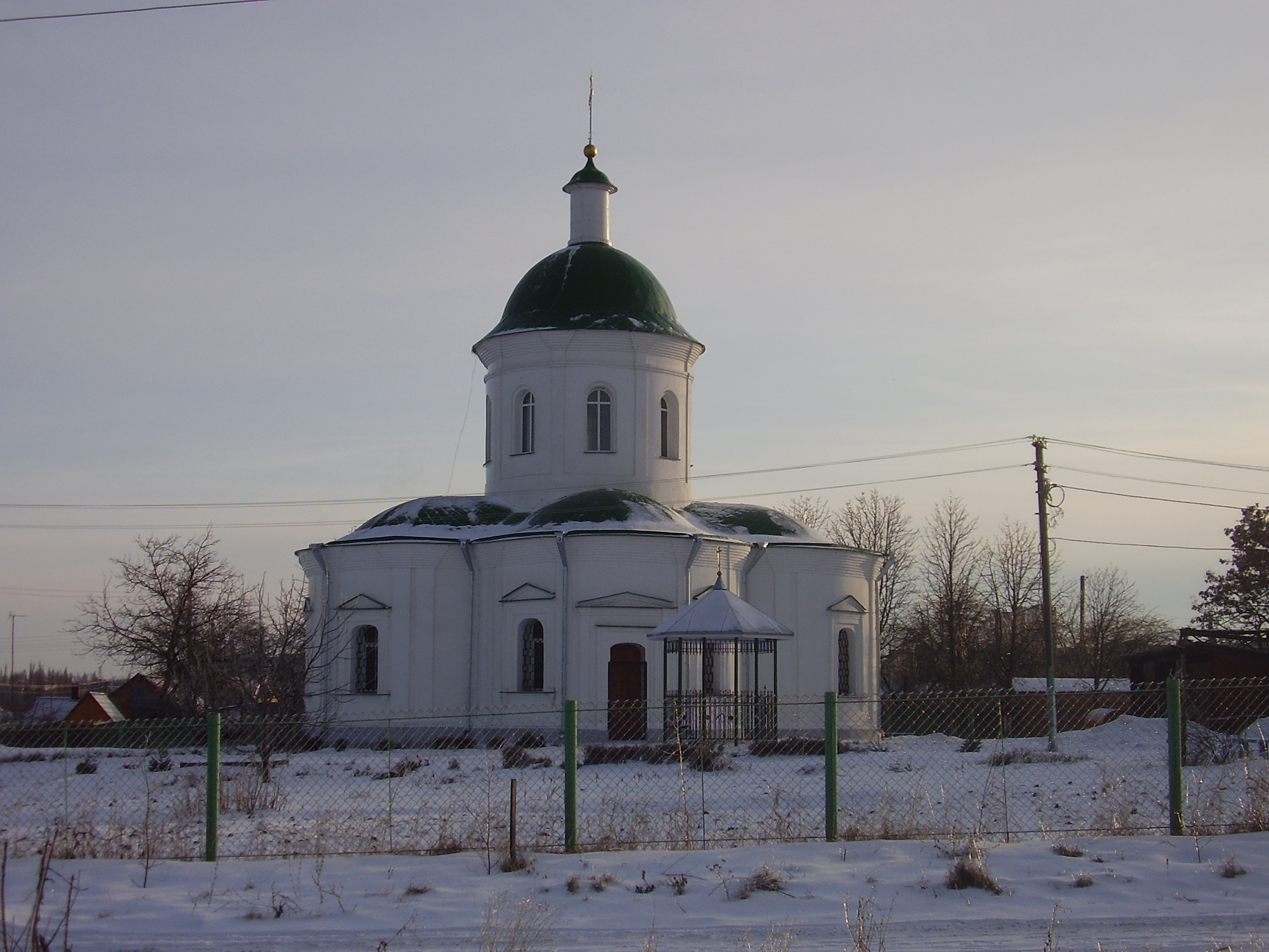 Ascension Church Pokrovsky Monastery (Poltava)